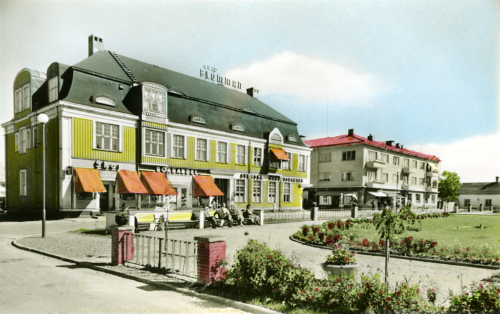 The Square in Haparanda. Torget i Haparanda. Parish (socken): Haparanda Province (landskap): Norrbotten Municipality (kommun): Haparanda County (län): Norrbotten Photograph by: Unknown. Almquist & Cöster Date: 1940-1959 Format: Original postcard, tinted Persistent URL: Read more about the photo database (in english)